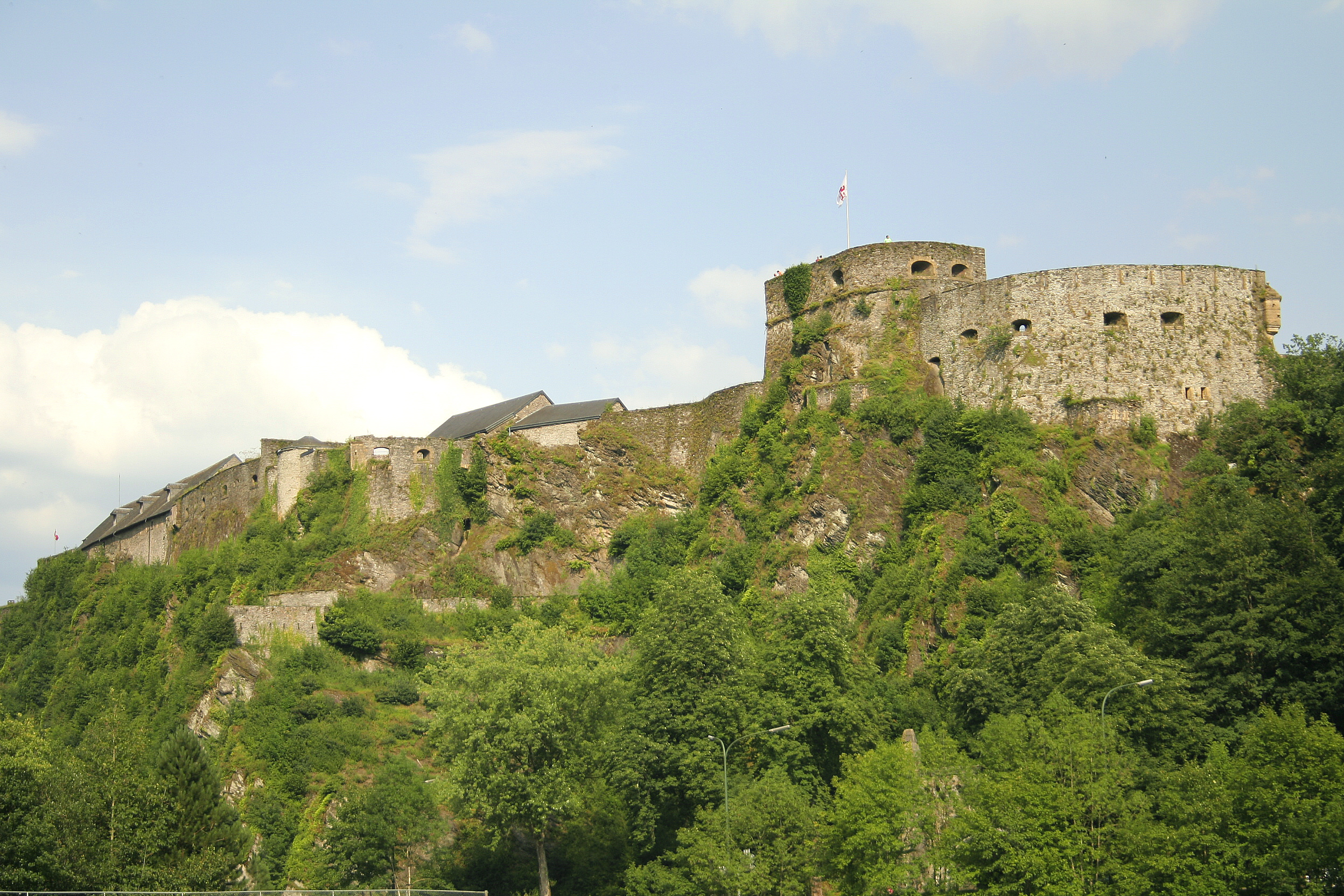 Bouillon (Belgium): western part of the castle (13th–19th centuries).